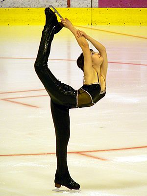 Nana Takeda during her exhibition at the 2005 Junior Grand Prix event in Croatia